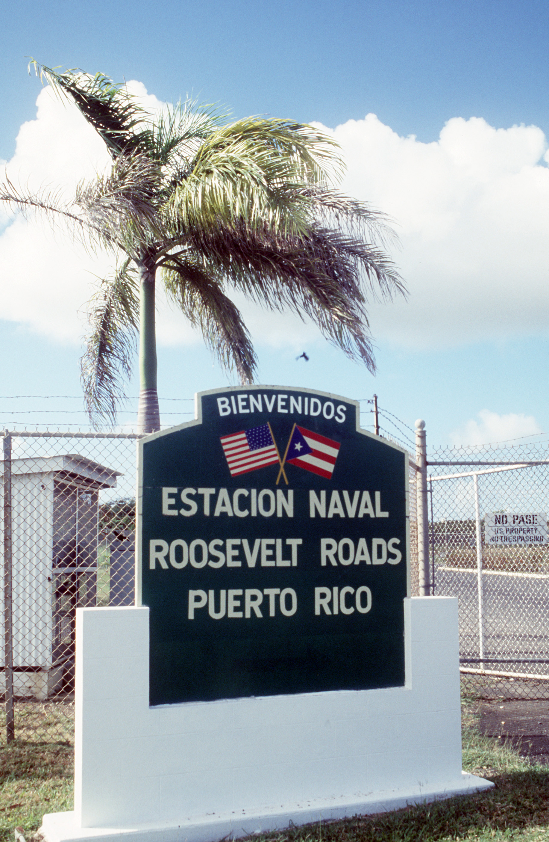 View of the main gate sign at the U.S. Naval Station Roosevelt Roads, Puerto Rico, in February 1986.